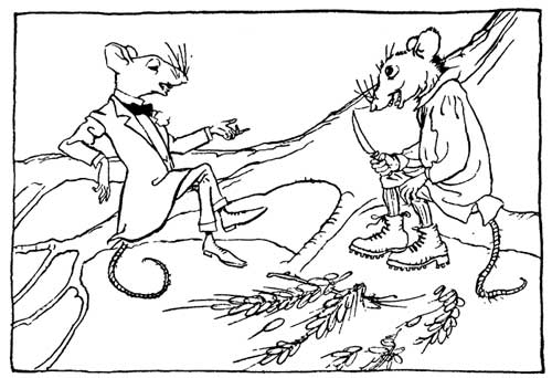 Arthur Rackham's illustration in Aesop's Fables: A New Translation by V.S. Vernon Jones (London, 1912)